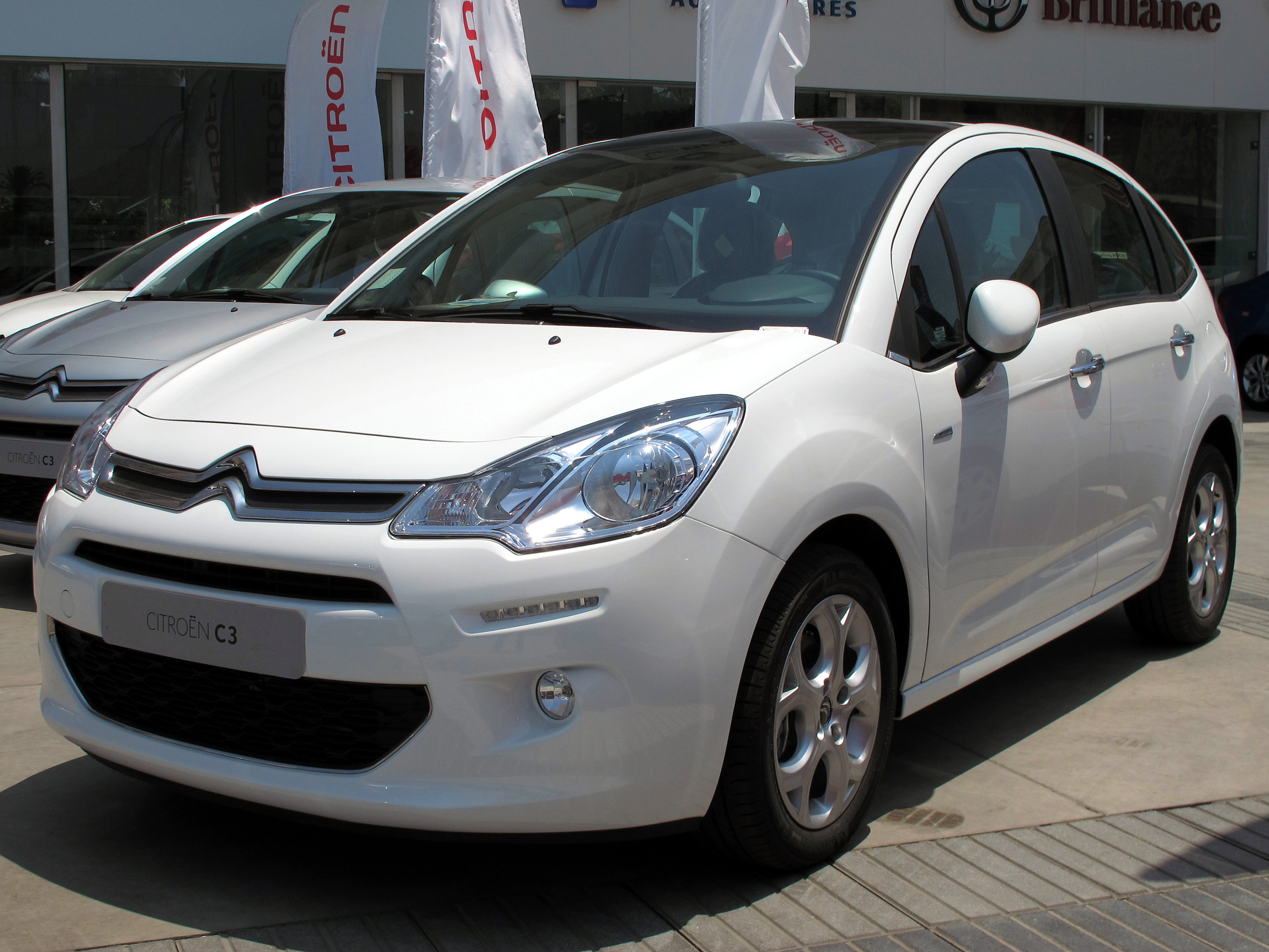 Citroen C3 1.6 Exclusive 2015